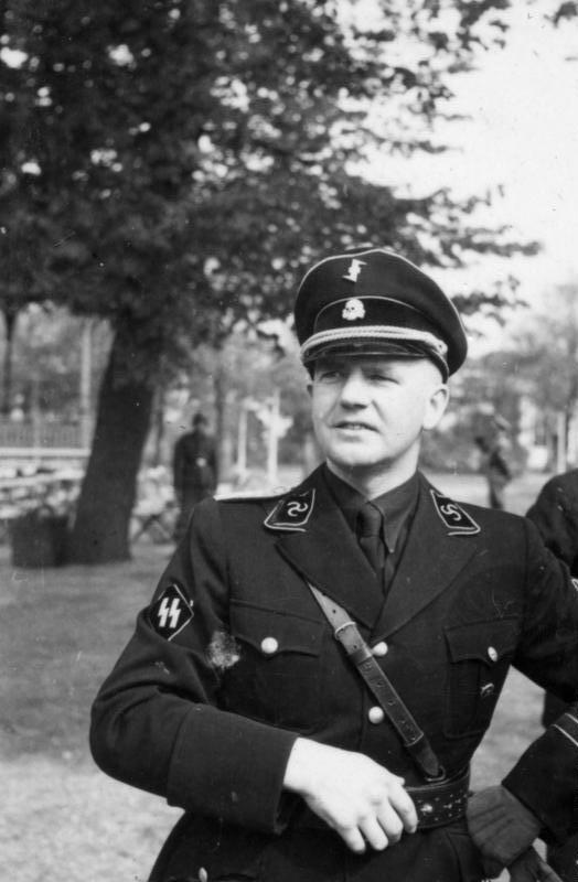 Title: J. Hendrik Feldmeyer Extra information: Sowjetunion.- Vereidigung niederländischer SS-Soldaten durch Himmler, J. Hendrik Feldmeyer Porträt Factual corrections and alternative descriptions are encouraged separately from the original description. Additionally errors can be reported at this page to inform the Bundesarchiv. Original historic description